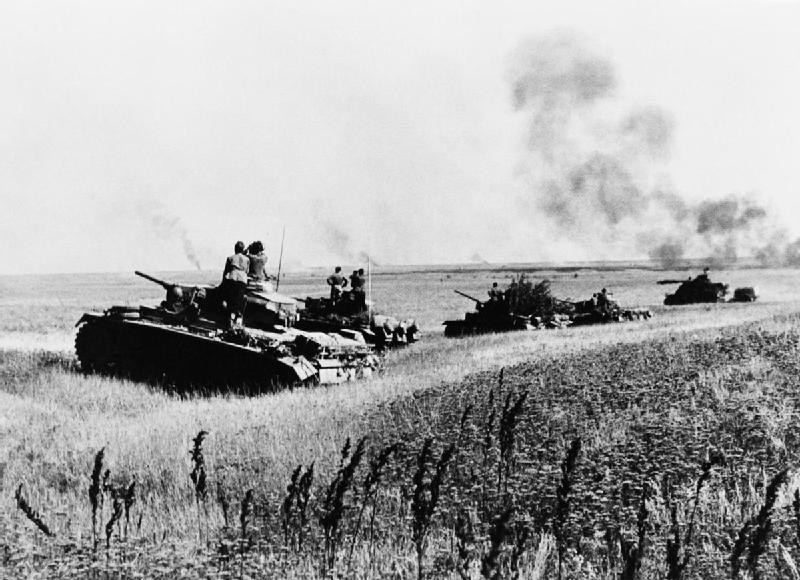 The German Advance on Stalingrad September 1942 German tanks pause in their advance to Stalingrad having successfully destroyed several Russian tanks, smoke from which can be seen rising on the right of the photograph.